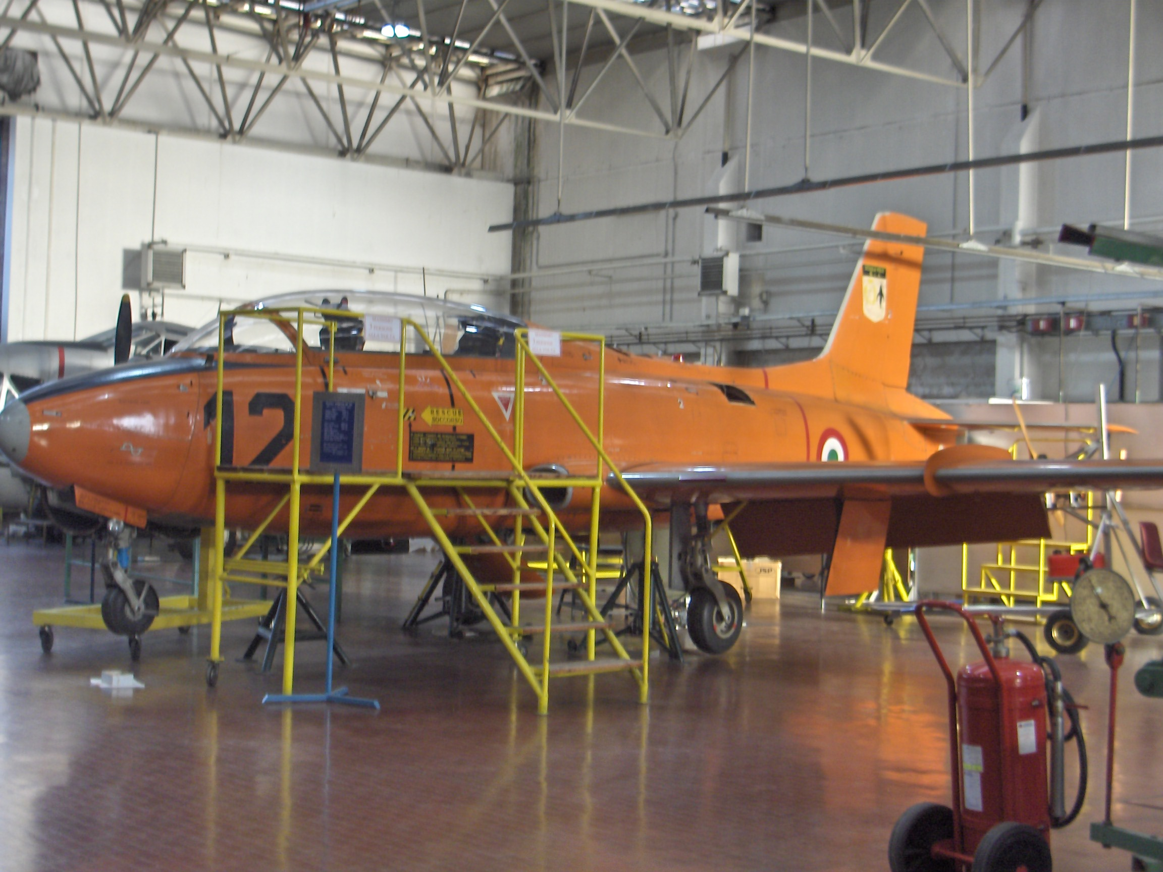 Aermacchi MB-326A of Italian Air Force at Istituto Tecnico Industriale Aeronautico "Malignani", Udine (Italy)